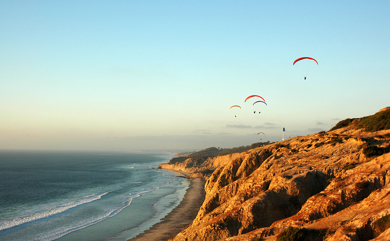 Torrey Pines Beach, San Diego, CA, USA